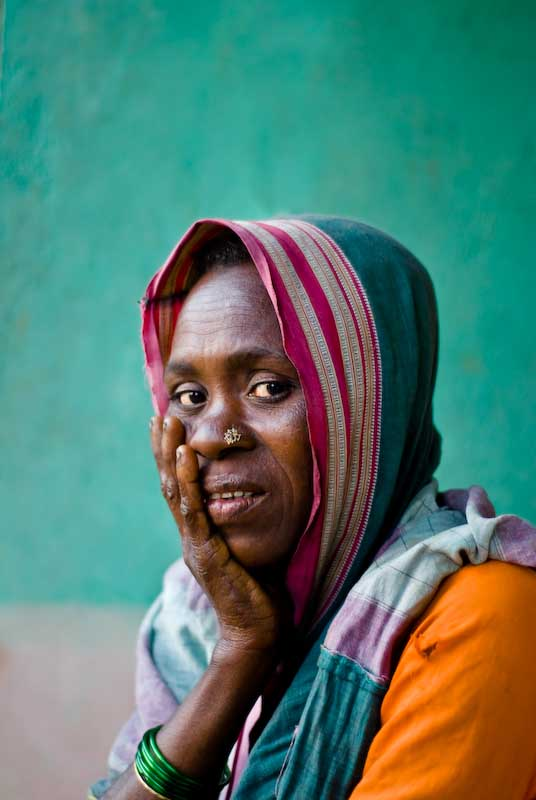 Portrait of a Siddi woman from Haliyal District of Karnataka, India.